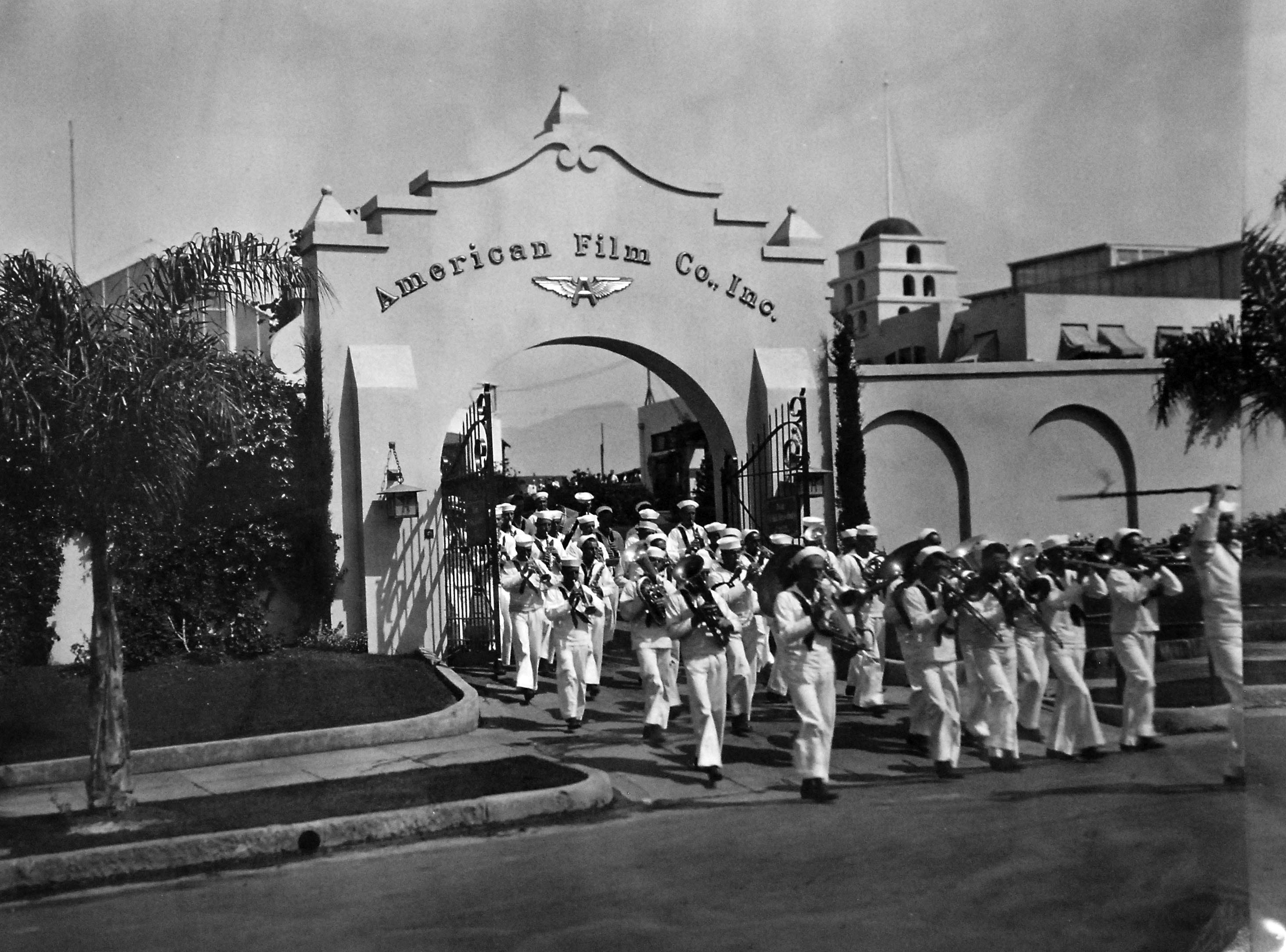 Lot-5419-5: Navy Recruiting Band, Santa Barbara, California, June 4-5, 1919. The Band at American Film Company. Secretary of the Navy Josephus Daniels Collection. Courtesy of the Library of Congress. Photographed through Mylar sleeve. (2016/06/17).